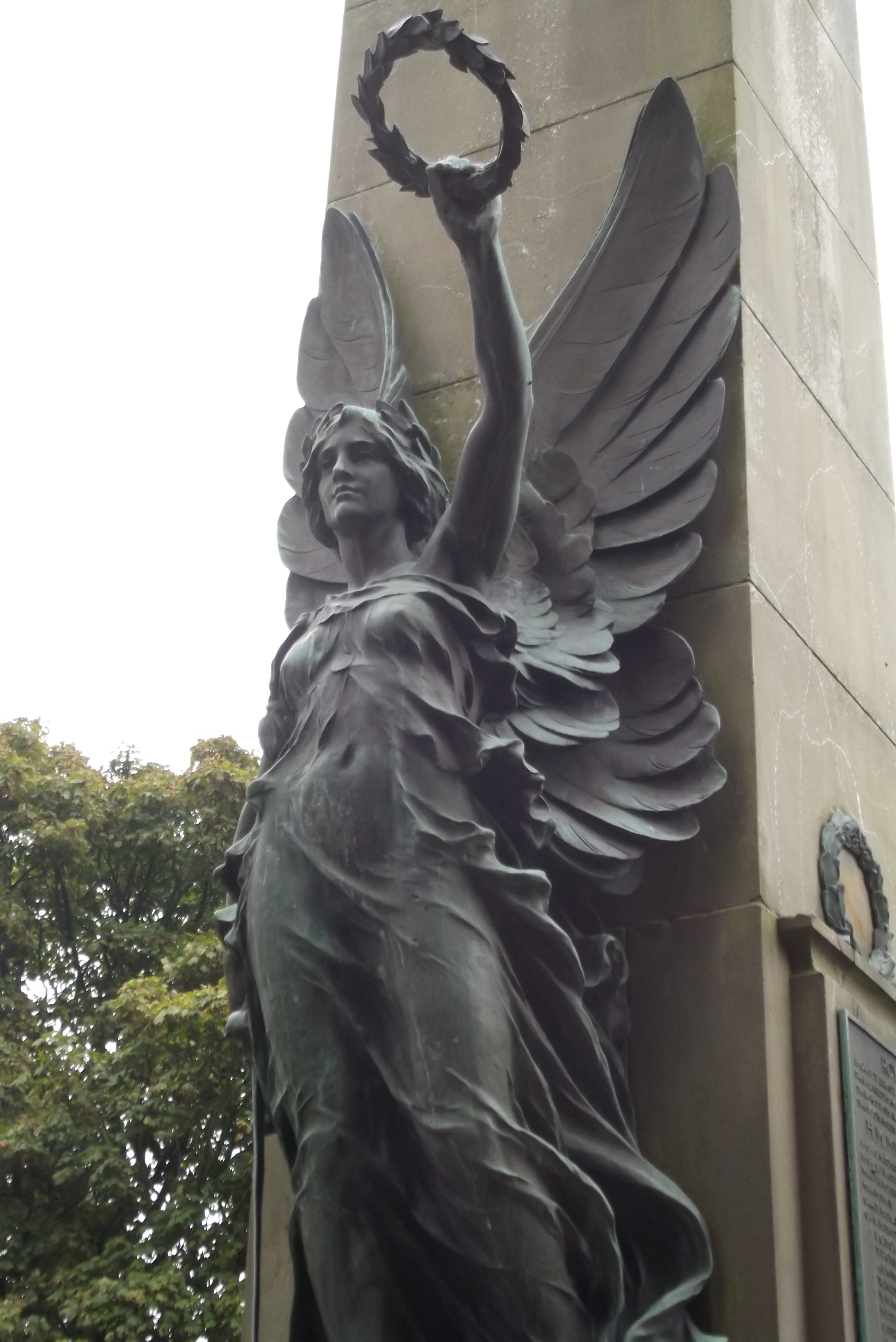 The Crescent and The Slopes in Buxton, Derbyshire. Location of the famous spa baths of the town! War memorial - Grade II listed at The Slopes. War Memorial on the Slopes, Buxton BUXTON SK0573SE THE CRESCENT 616-1/4/44 (South side) War Memorial on The Slopes GV II War Memorial. c1920. Ashlar with bronze ornaments. Two step square base with curved front, supports rectangular base with plinth and projecting curved front bearing bronze inscription, PRO PATRIA, 1914+1918, 1939+1945. Above tall obelisk with laurel band and pyramidal cap, bears bronze panels on three sides, and at the front a bronze figure of a winged angel holding a sword brandishing a laurel wreath. Listing NGR: SK0585173472 This text is a legacy record and has not been updated since the building was originally listed. Details of the building may have changed in the intervening time. You should not rely on this listing as an accurate description of the building. Source: English Heritage Listed building text is © Crown Copyright. Reproduced under licence. bronze statue